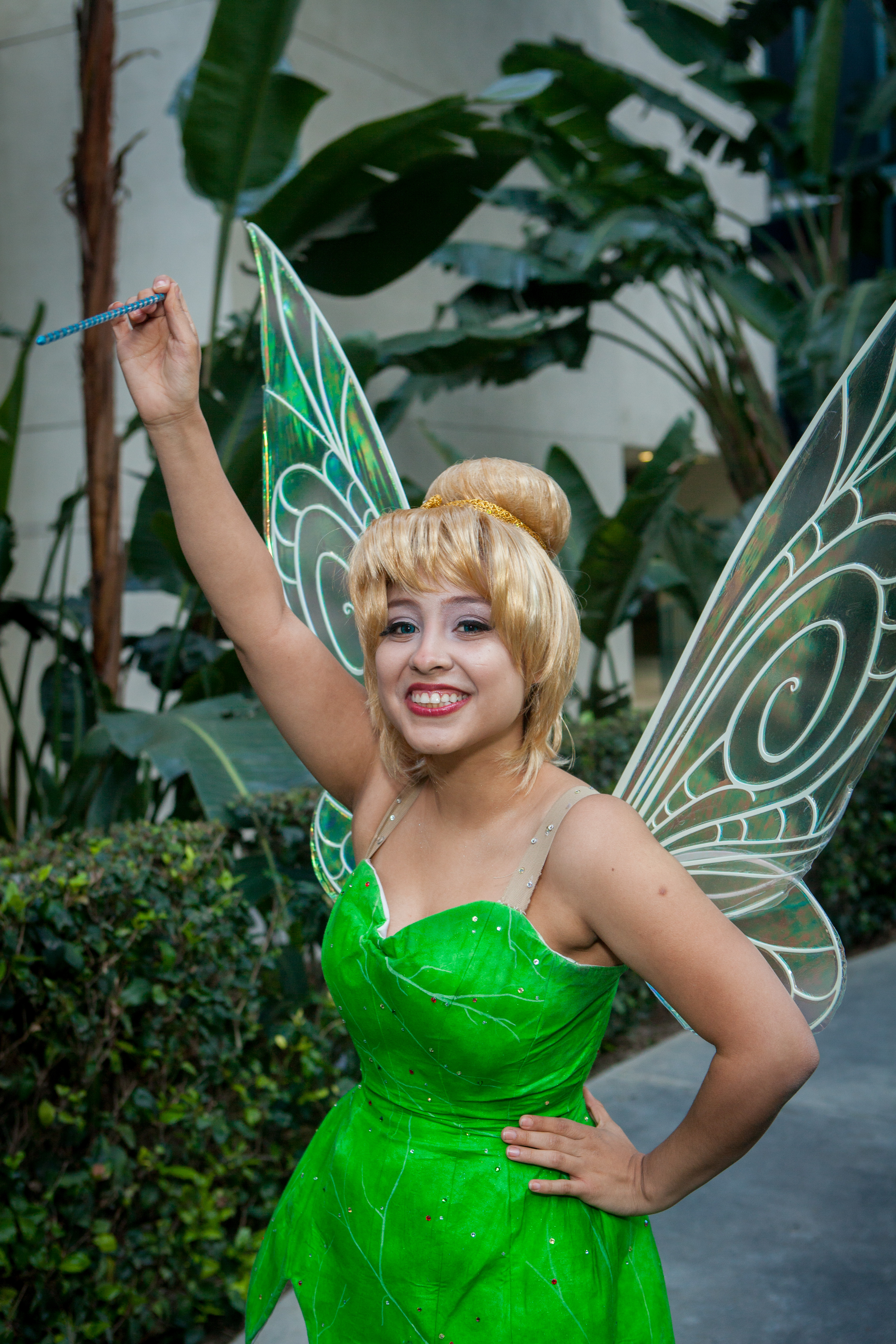 Wondercon 2014-7753